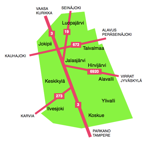 Main roads and villages of Jalasjärvi, Ostrobothnia, Western Finland.